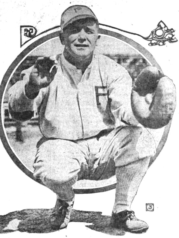 Professional baseball player Rowdy Elliott